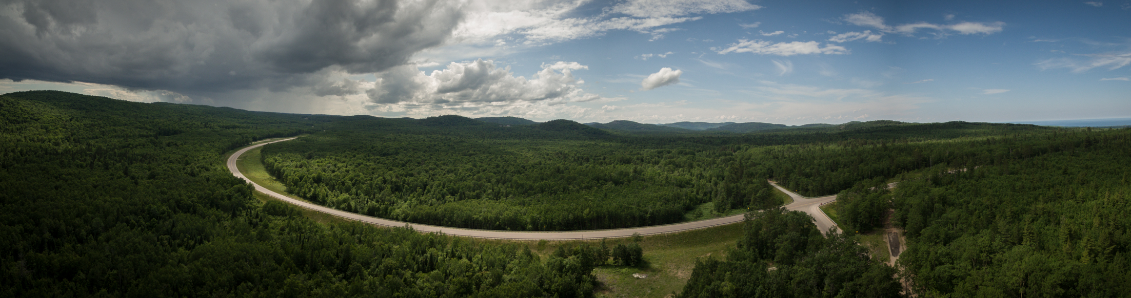 Thunderstorm rolls in over the Huron Mountains. Facing West from CR510.